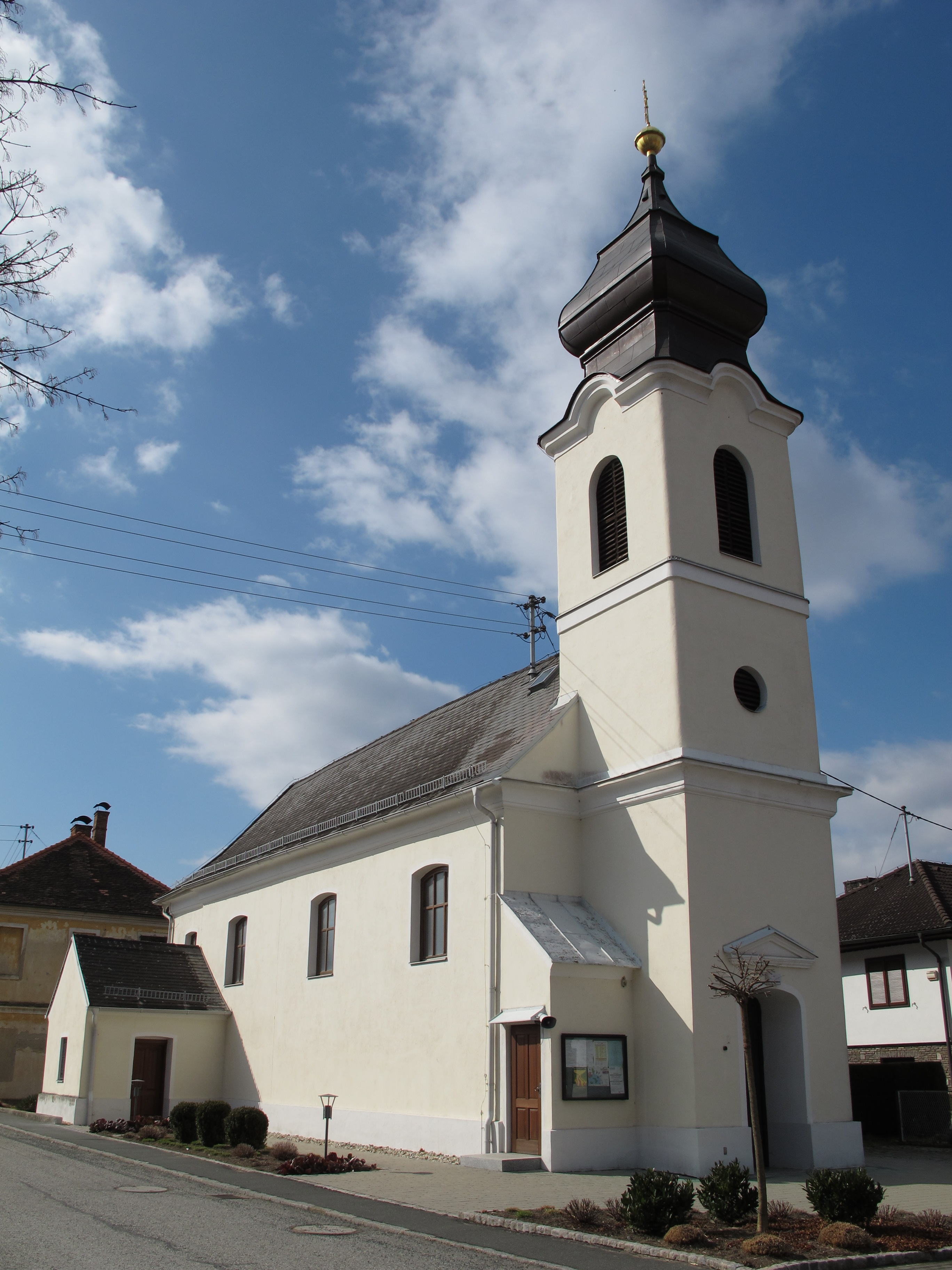 Kirche Gaas